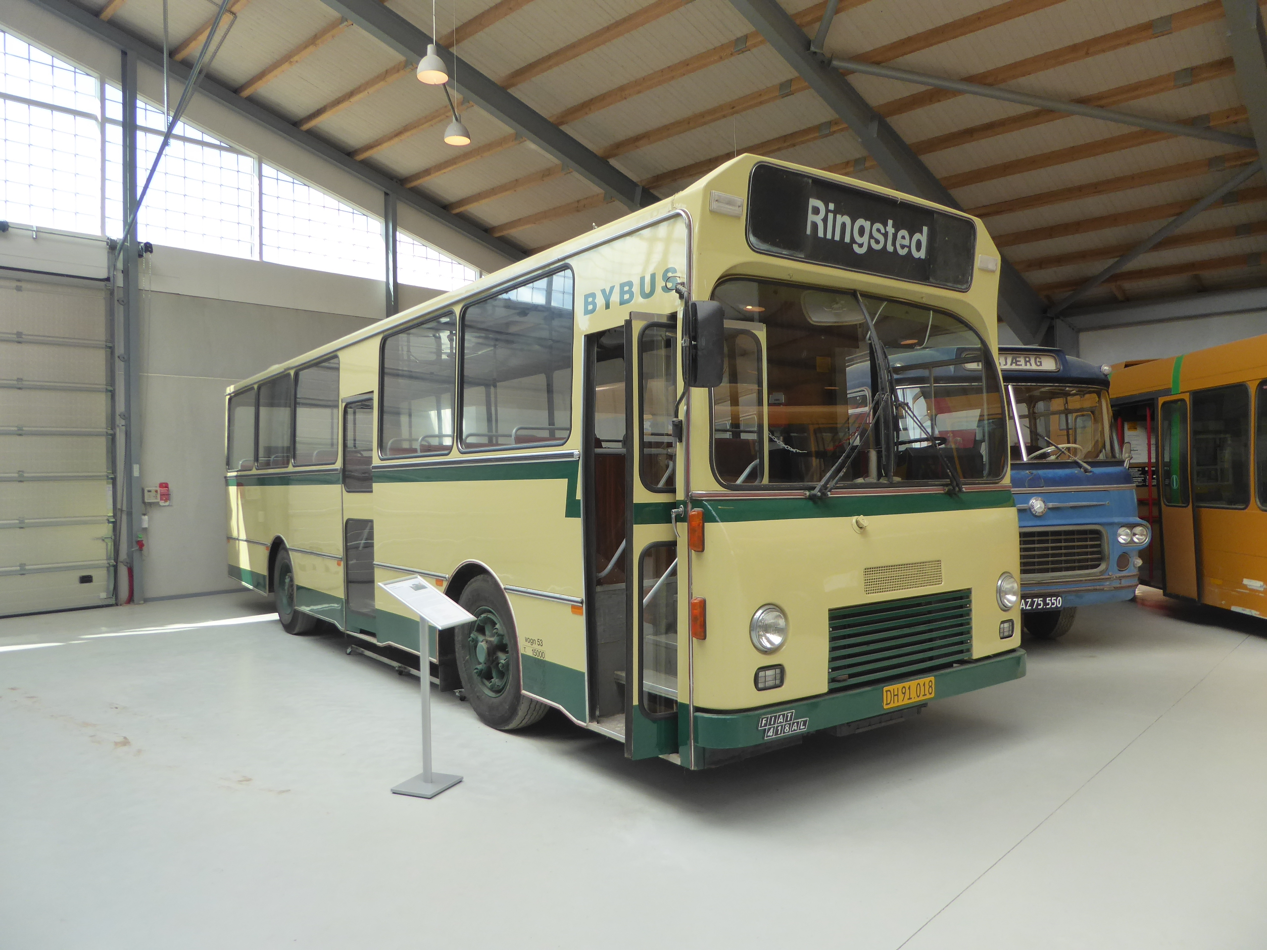 Old bus from Ringsted, Jensens Turisttrafik 53 build in 1975, in the new bus exhibition hall at Sporvejsmuseet Skjoldenæsholm in Denmark.